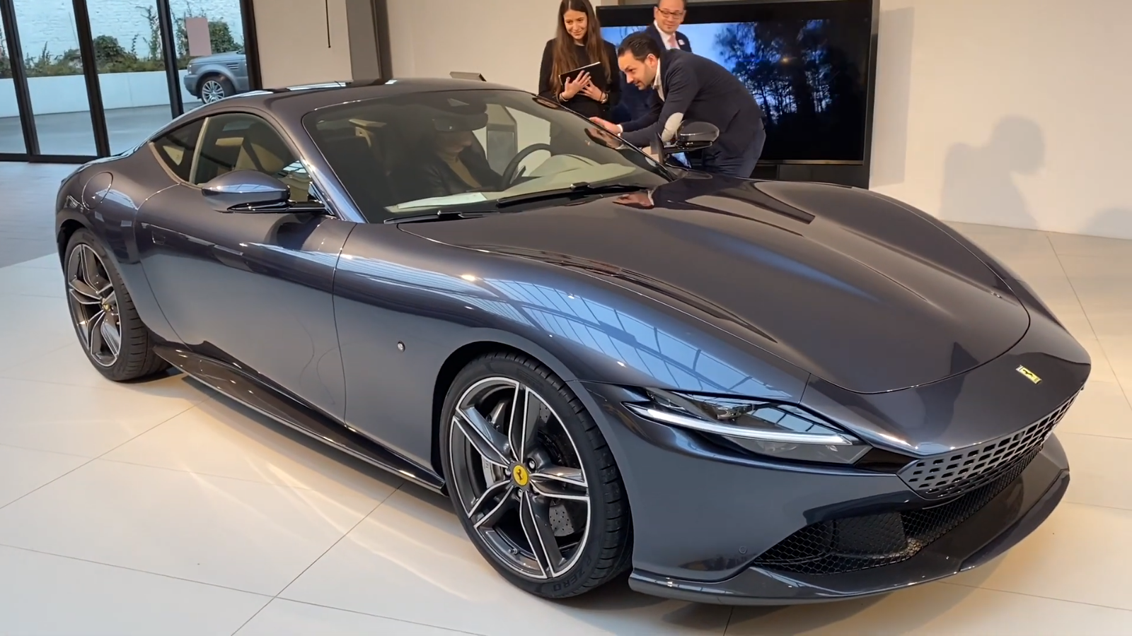 Ferrari Roma in Basel, Switzerland. At the Niki Hasler Ferrari dealership in 15 Hardstrasse, 4052 Basel.[1]